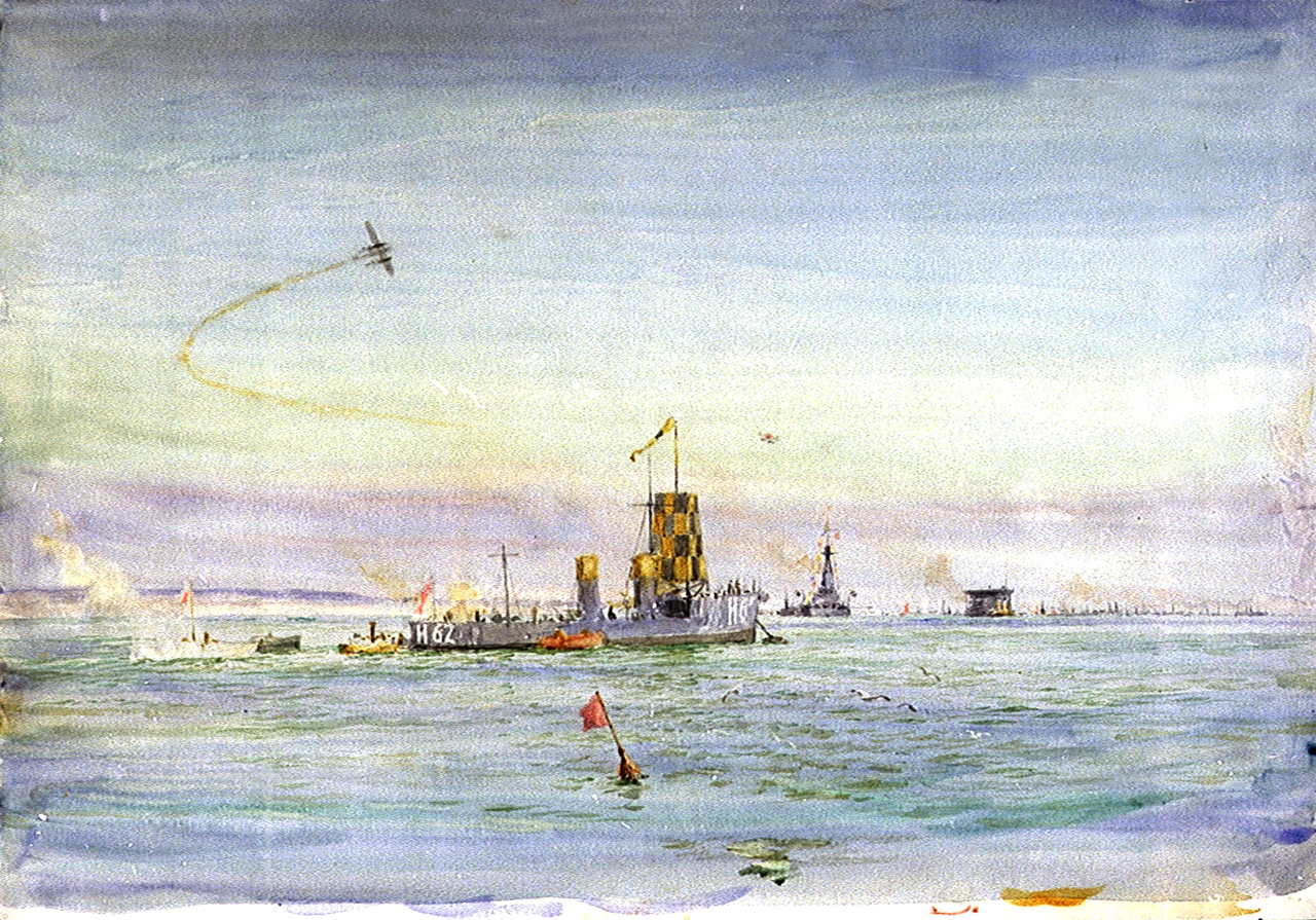 Schneider Cup original art: drawing